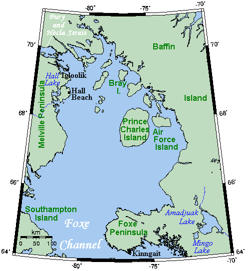 A map showing Foxe Basin and nearby areas. This map's source is here, with the uploader's modifications, and the GMT homepage says that the tools are released under the GNU General Public License.